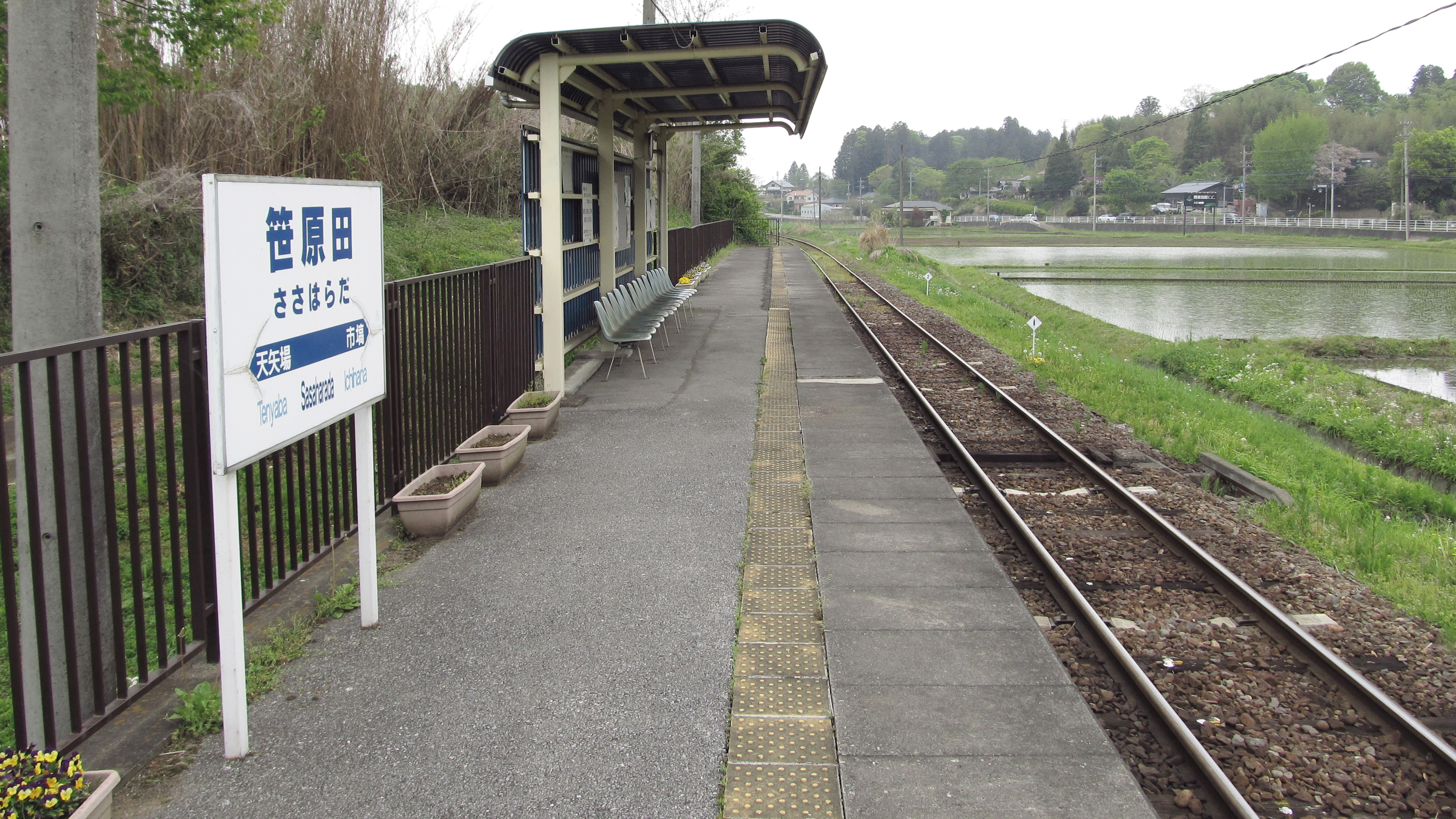 The platform at Sasaharada Station on the Mooka Railway Mooka Line in the Ichikai town, Tochigi prefecture, Japan